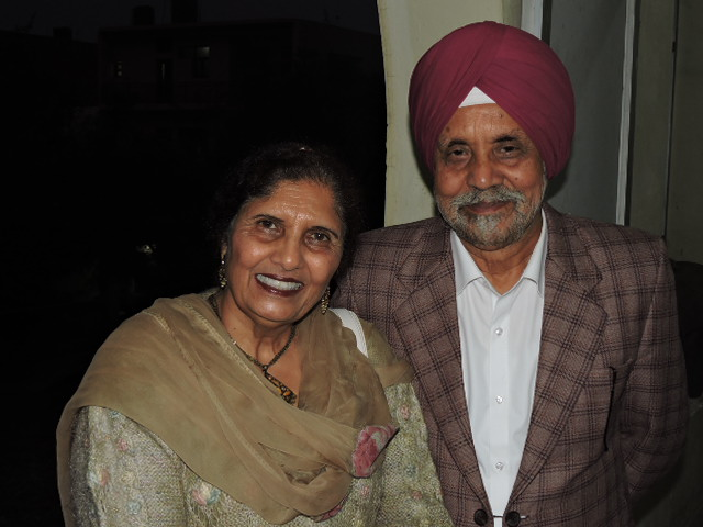 Dr.Gurminder Sidhu and Dr. Baldev Singh Khehra Punjabi language writer couple,Mohali, Punjab